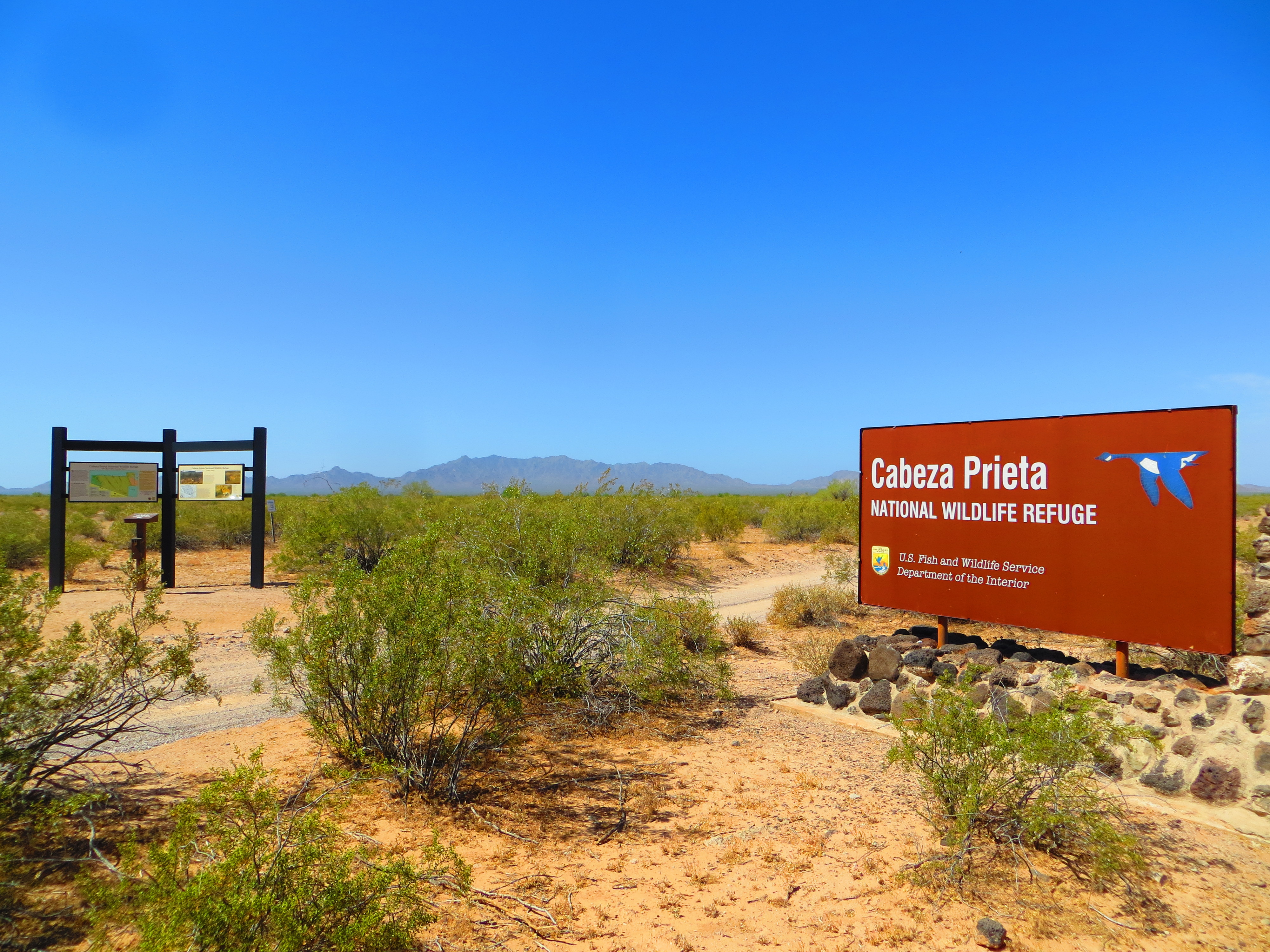 sign along El Camino Del Diablo roadside at eastern entrance to Cabeza Prieta National Wildlife Refuge.